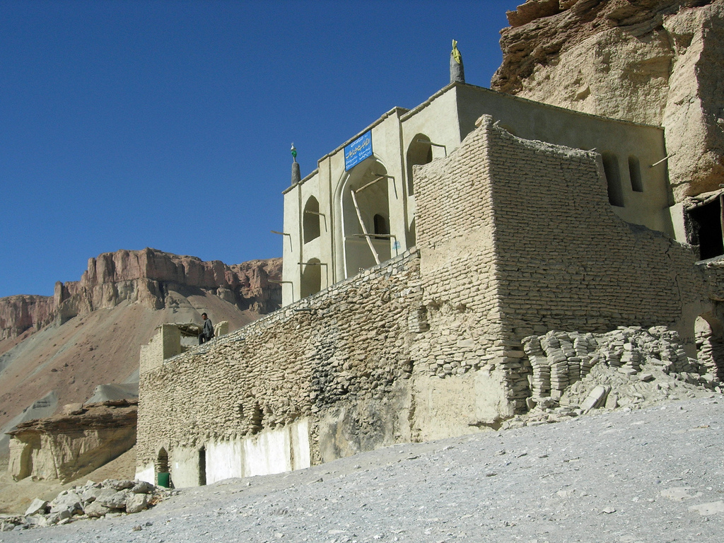 Band-e-amir is a series of deep blue lakes nestled amidst limestone canyons. This is Afghanistan%u2019s Grand Canyon, truly a sight inspiring of awe. Weather is worth traveling through Taliban territory to get here is entirely another question. More from Afghanistan on my site contained in these posts. CC